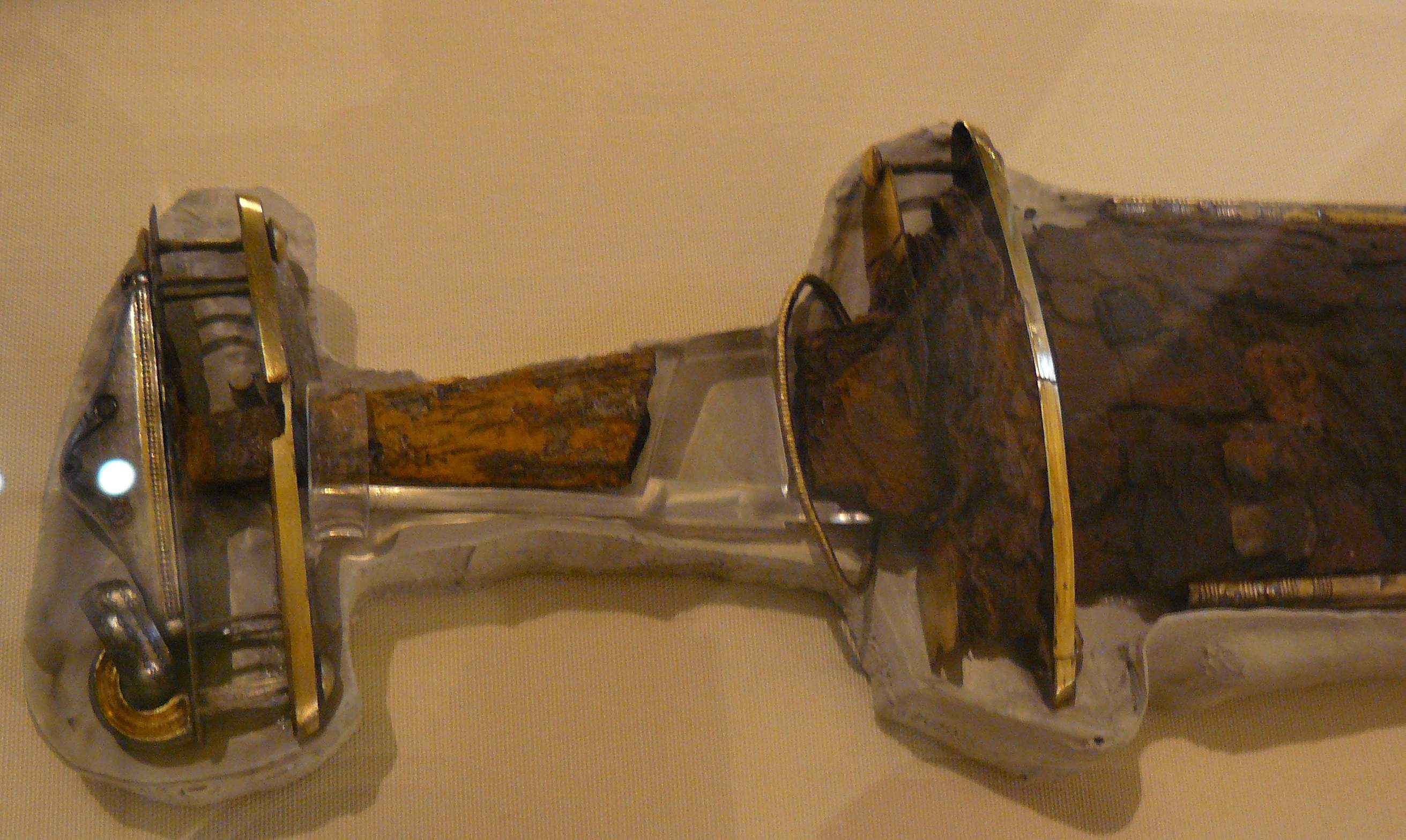 Hilt of an anglo saxon ring sword (also ring-hilt spatha) from the late 6th century, British Museum, London